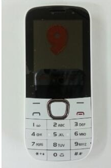 An image of a Ninetology Vox